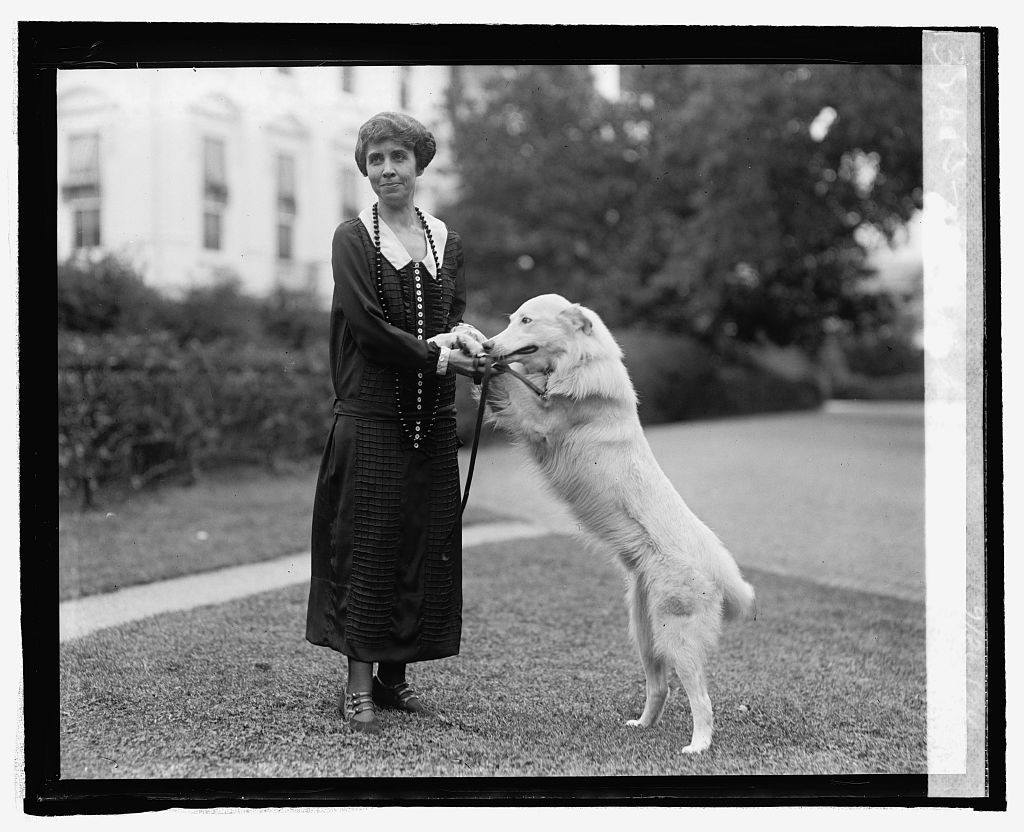 Mrs. Coolidge with "Rob Roy," 9/26/24